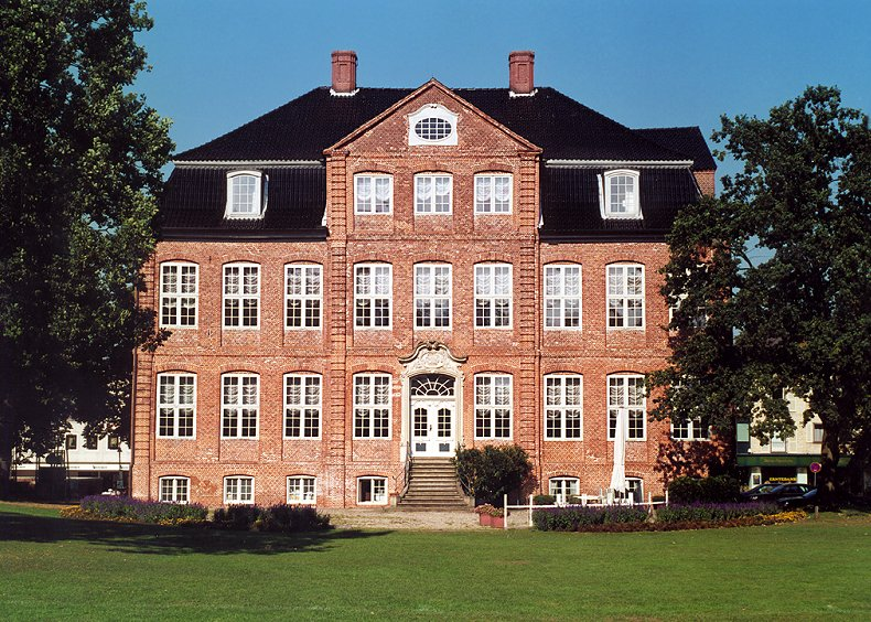 Pinneberg (Germany) Drostei